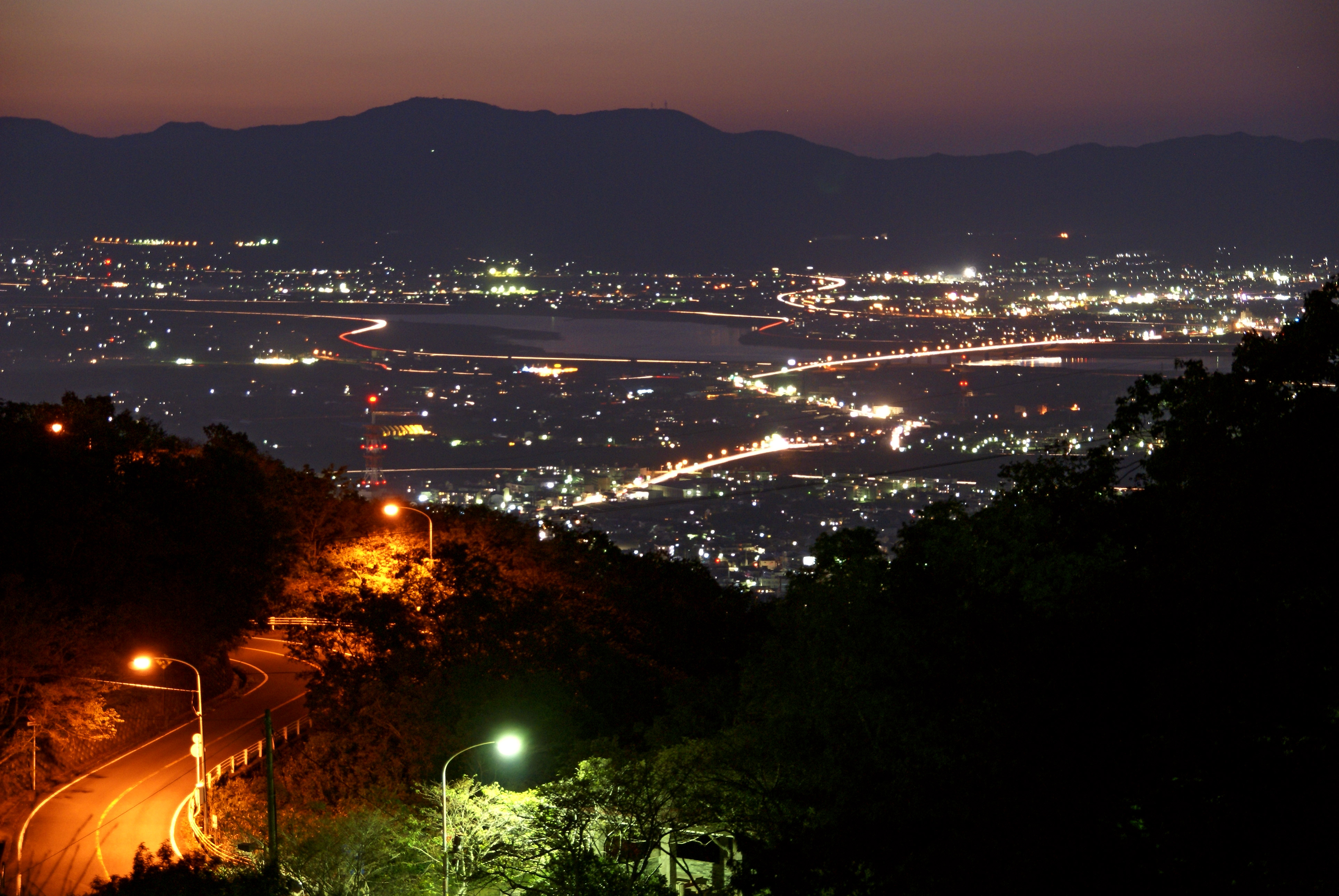 Cityscape of Tokushima seen from Bizan in Tokushima Prefecture, Japan